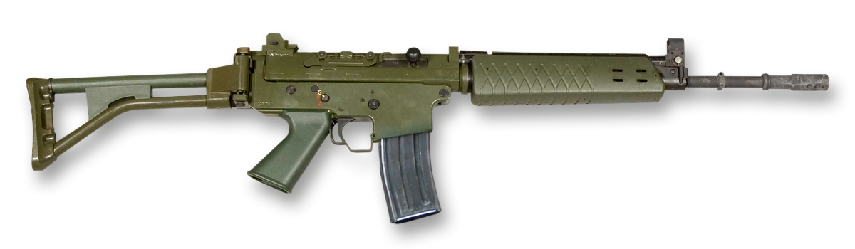 Automatkarbin 5 or just Ak 5, is the Swedish-made version of the FN FNC assault rifle with certain modifications